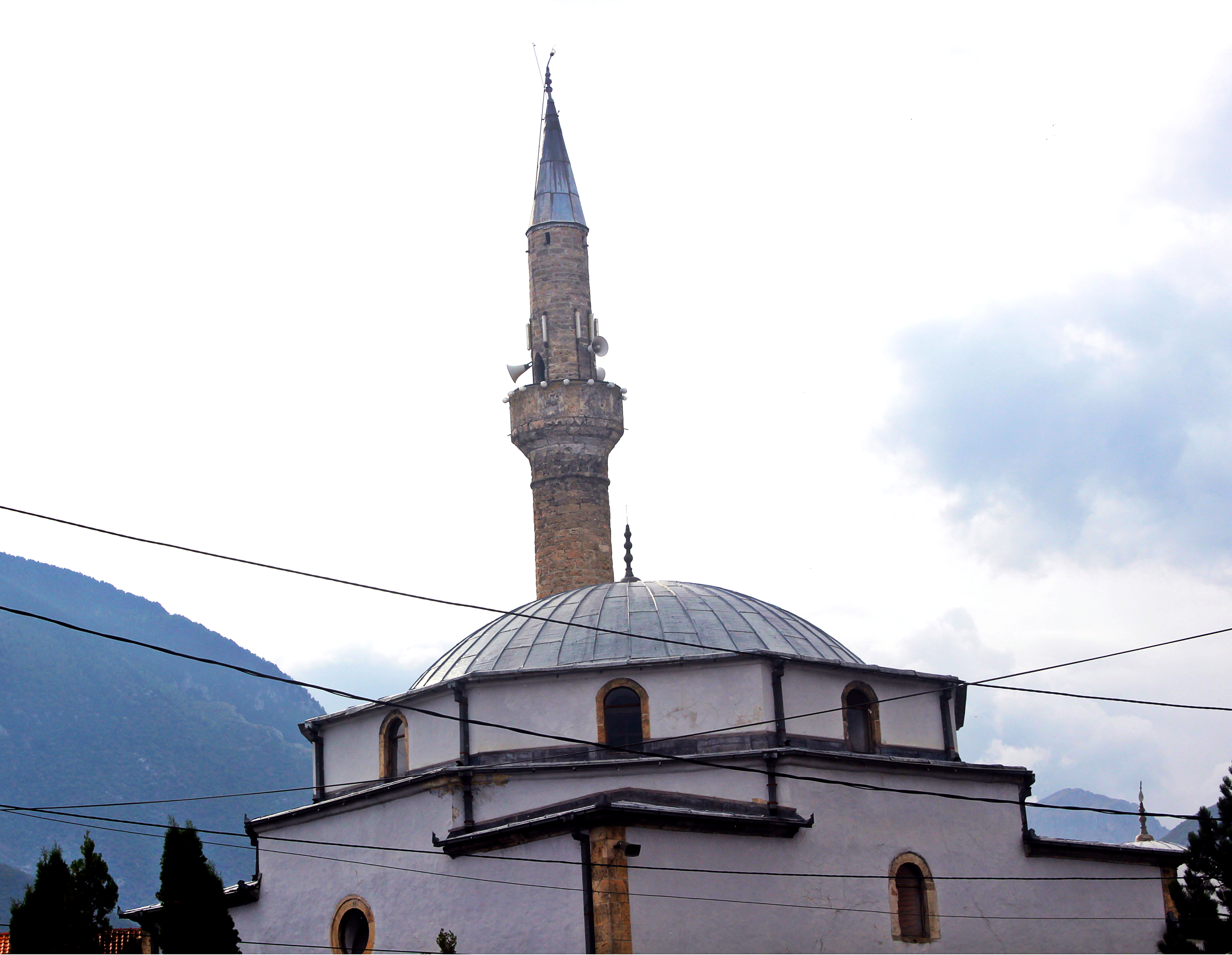 Carshi Mosque, Peje